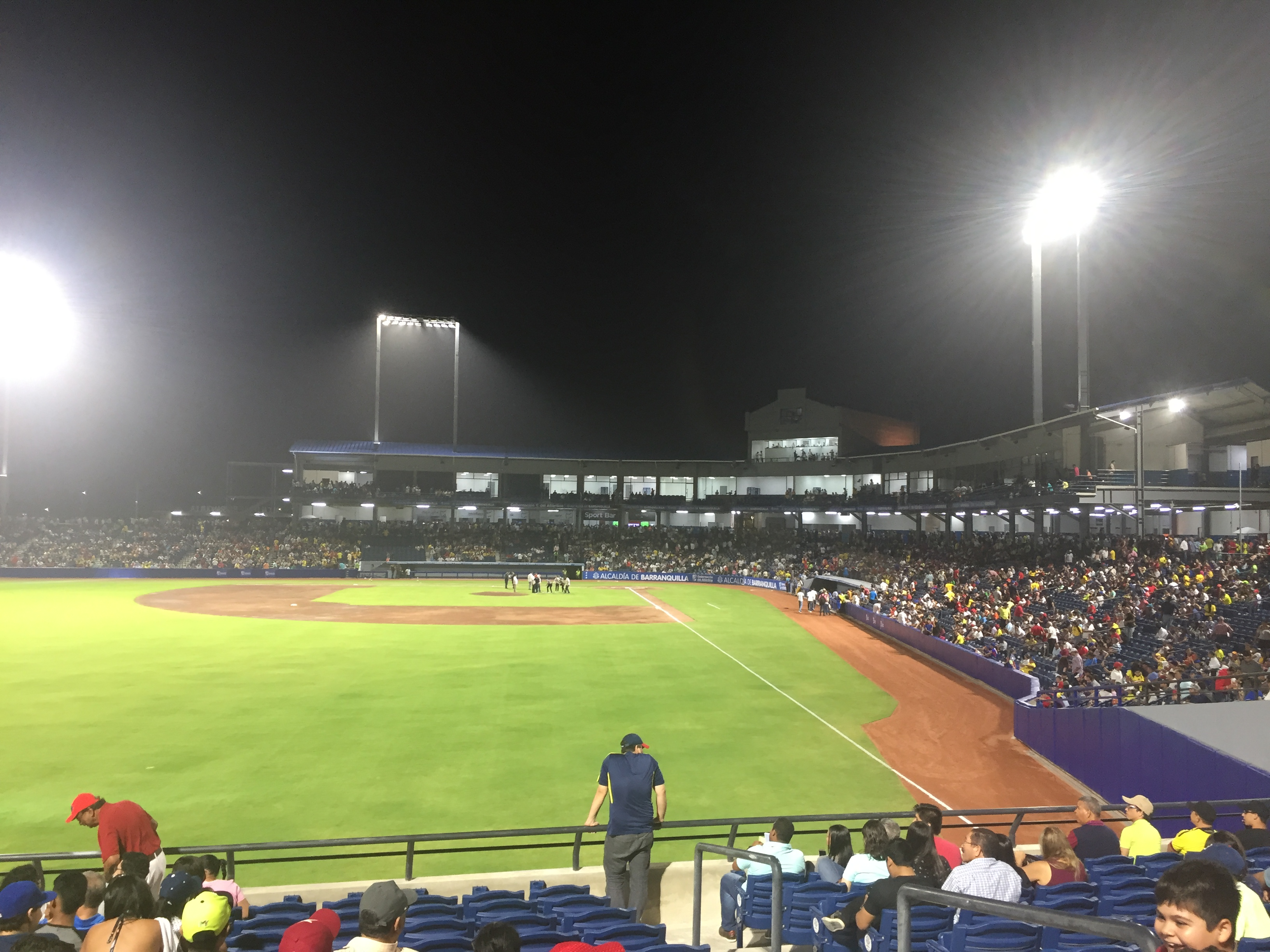 Edgar renteria Stadium vista